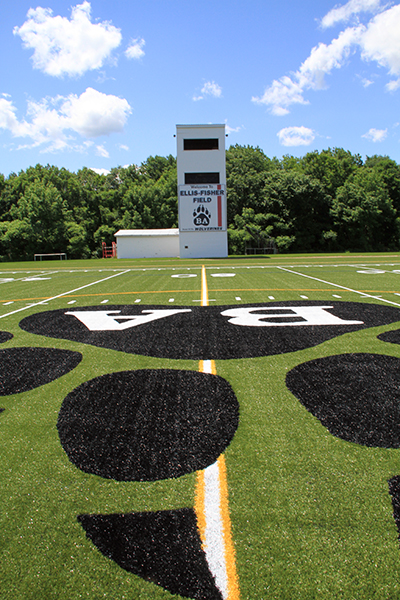 Center Paw of the Bridgton Academy Multi-use Turf Field, installed in June of 2015